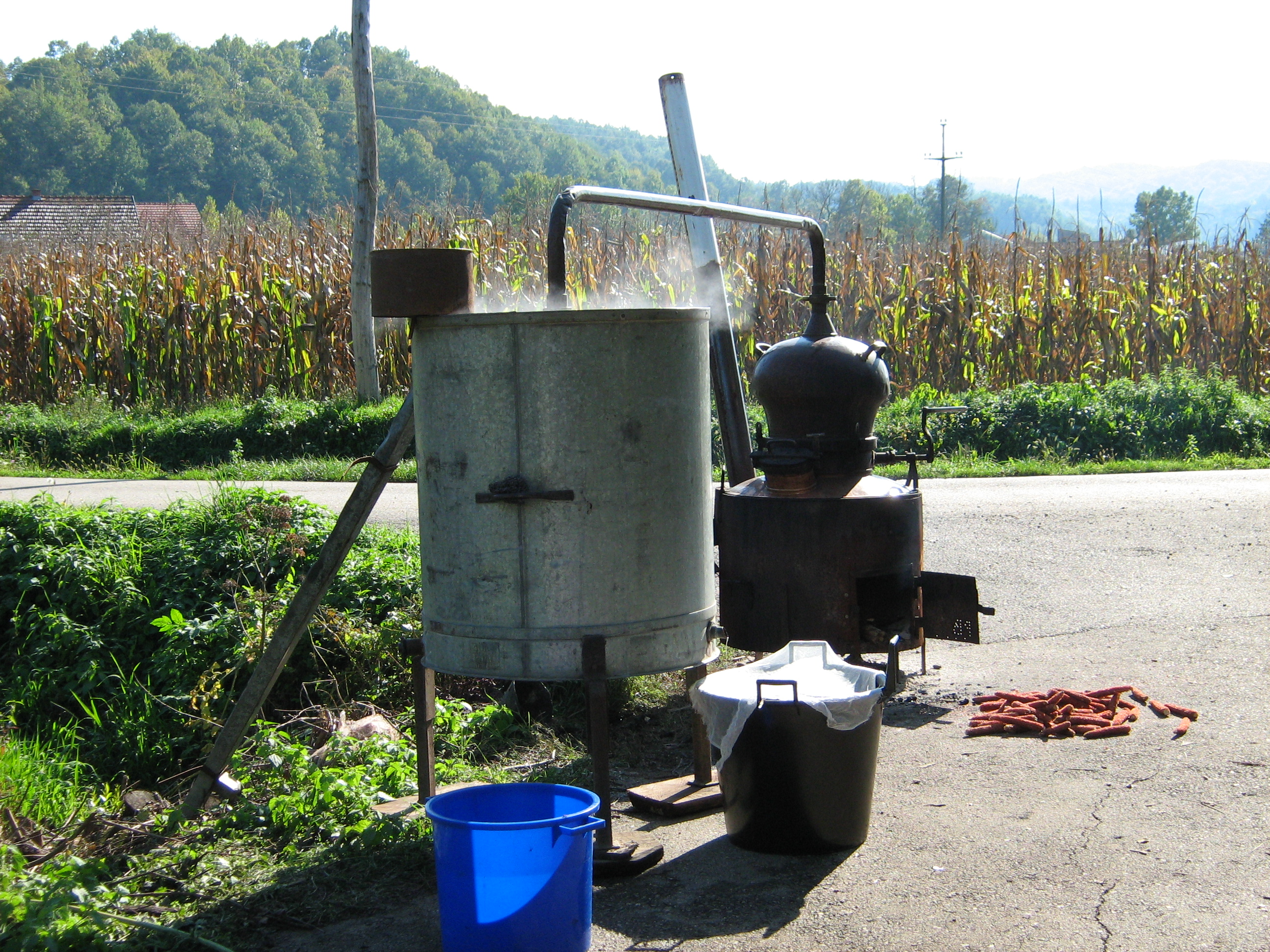 Traditional coper cauldron, used for rakia distillation in Serbia